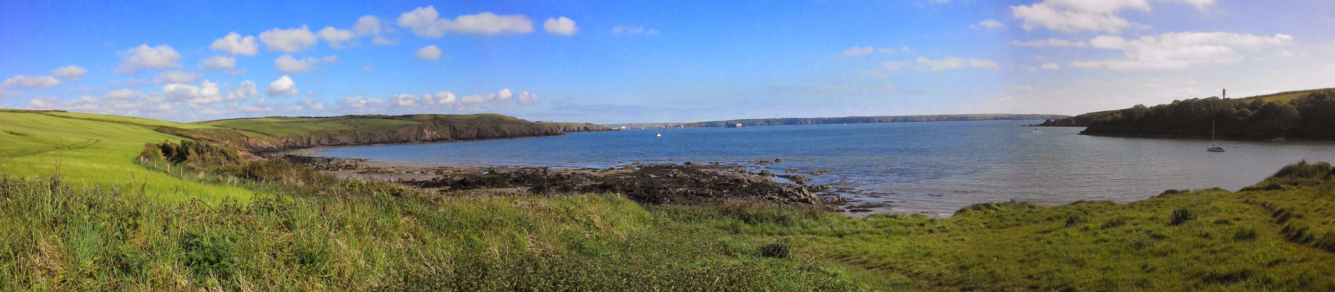 Panoramic of Sandy Haven beach near Milford Haven, looking out to the Cleddau estuary